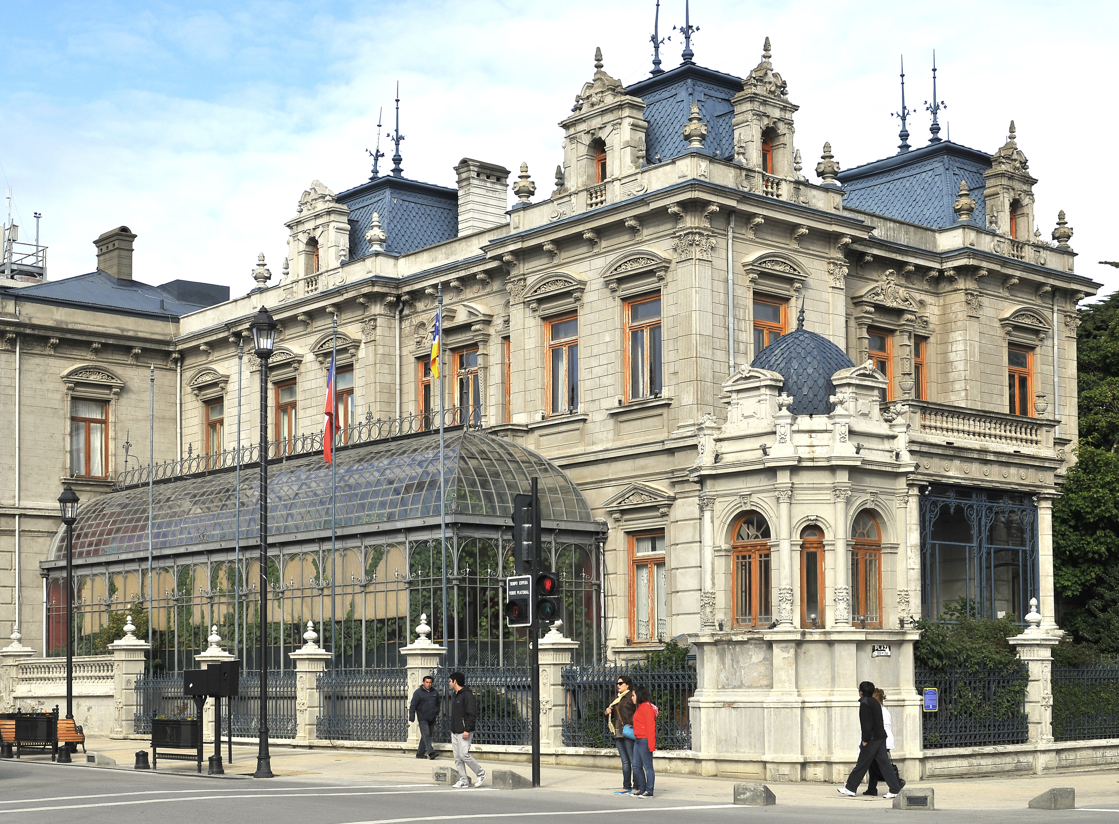 Sara Braun Palace (Nogueira Hotel). Punta Arenas, Magallanes, Chile